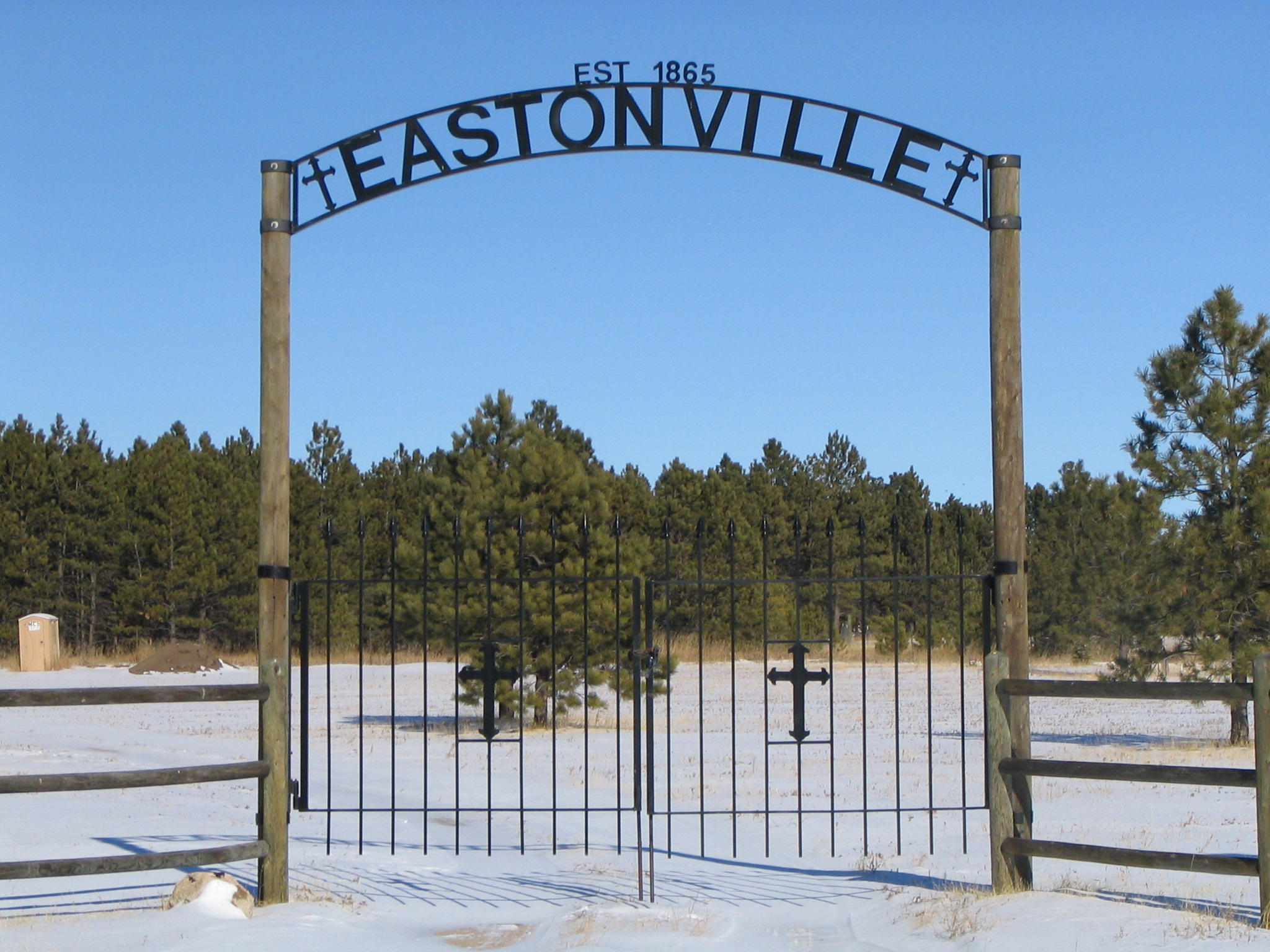 Eastonville Cemetery Sign